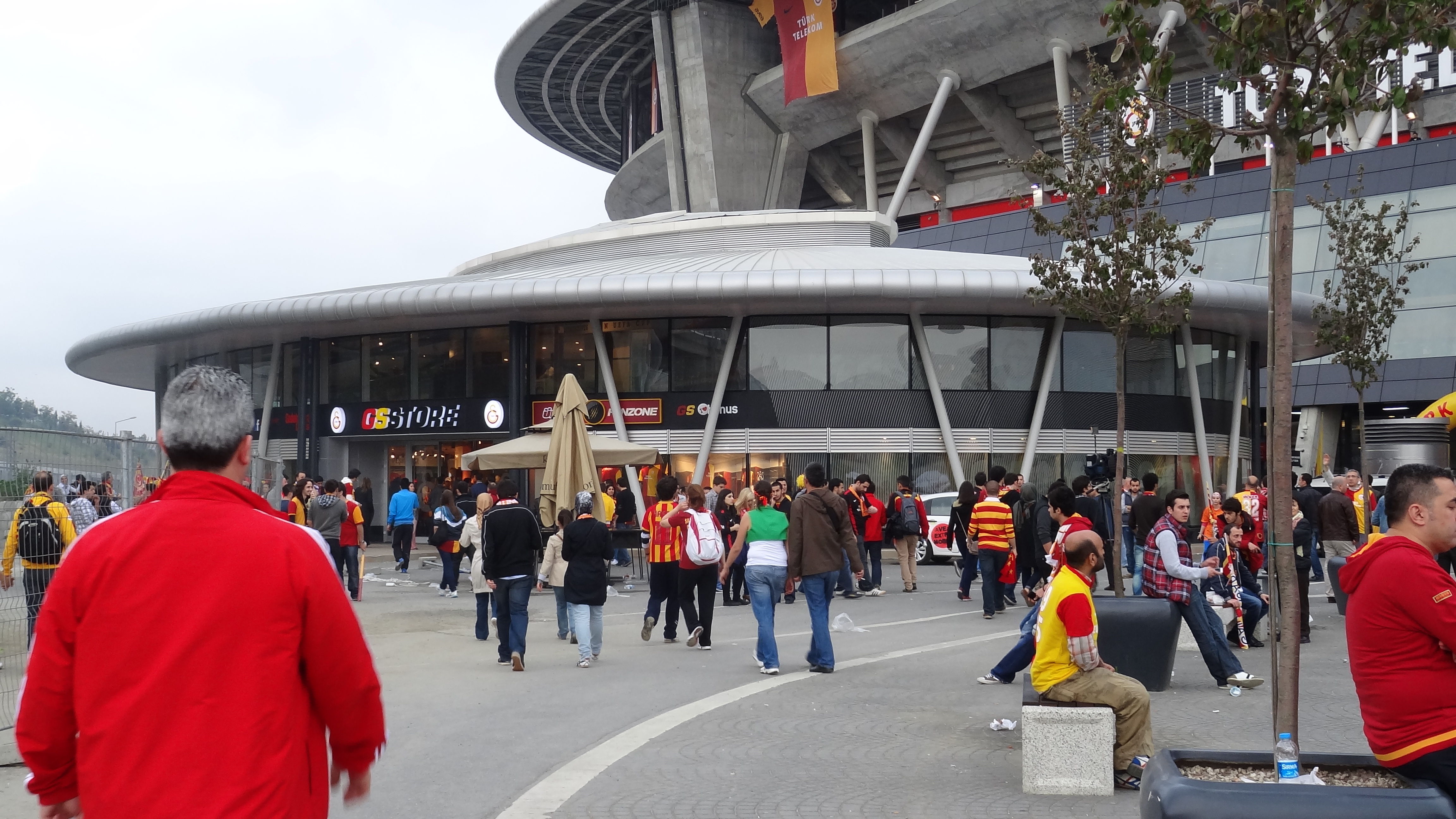 Ali Sami Yen Spor Kompleksi Türk Telekom Arena Galatasaray Store